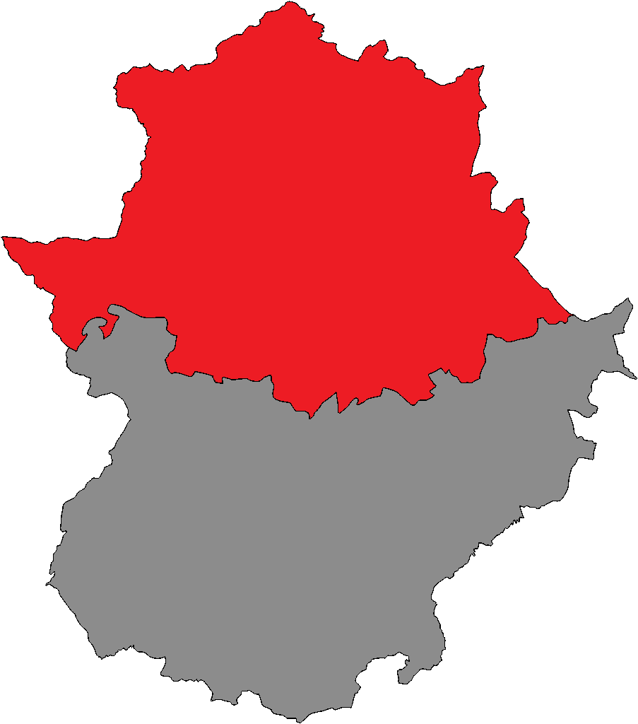 Extremaduran Assembly district of Cáceres.